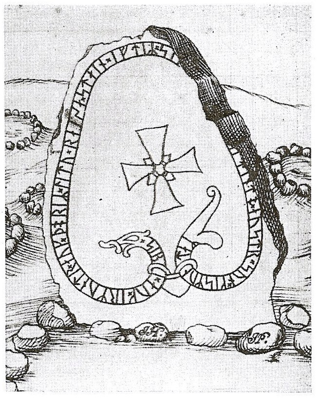 drawing